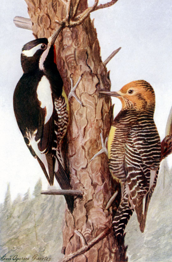 Williamson's Sapsucker, Sphyrapicus thyroideus, offset reproduction of watercolor